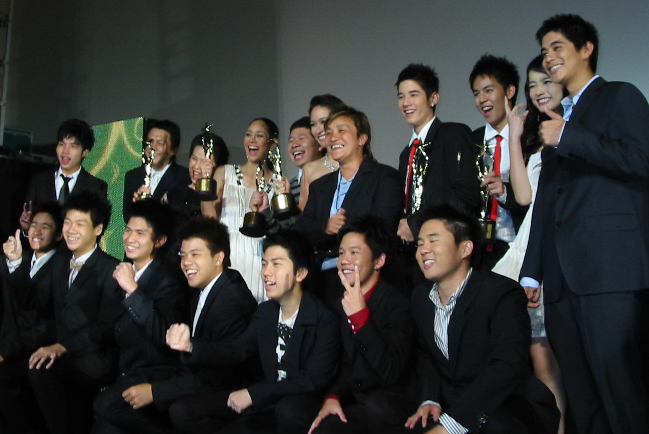 Crew of The Love of Siam at Star Entertainment Awards 2007